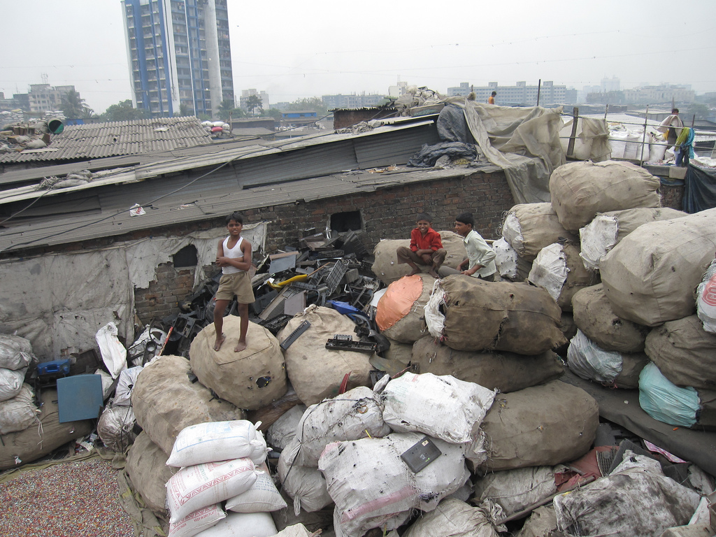 Despite Dharavi's negative light as a filthy slum with people living in poor conditions it is also industrious and enterprising.